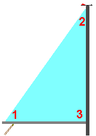 Rigging: top-rigged sail, corners of the sail tophoek